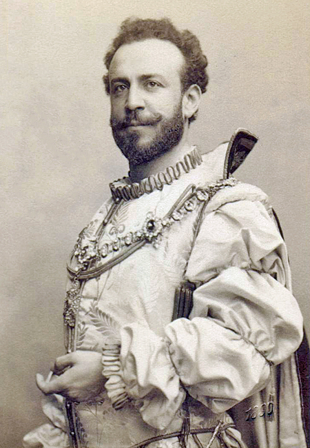 Portrait of Portuguese opera singer Francisco D'Andrade as Don Giovanni.